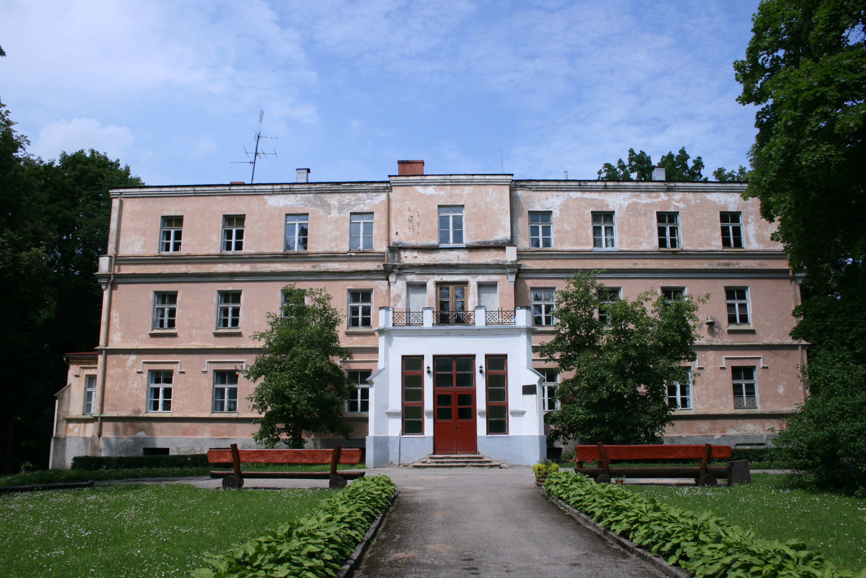 Taurupe ManorLatviešu: Taurupes muižas pils